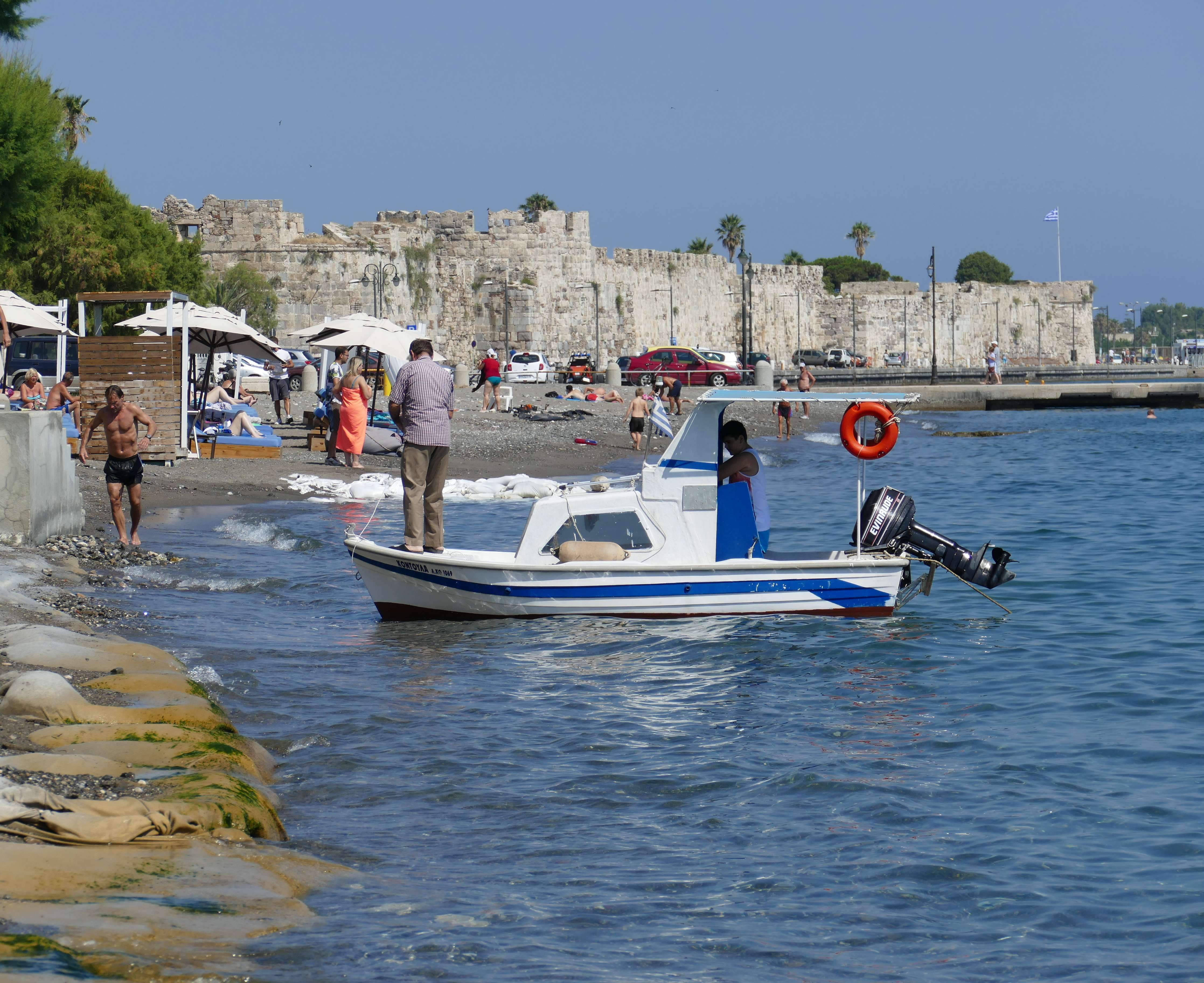 Neratzia castle, Kos, Greece.